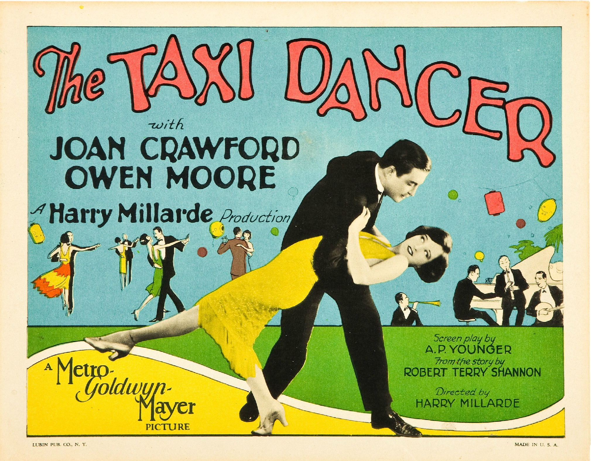 Lobby card for the American comedy film The Taxi Dancer (1927).